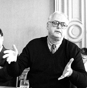 John Hejduk during his lecture, Prague, 6 September 1991